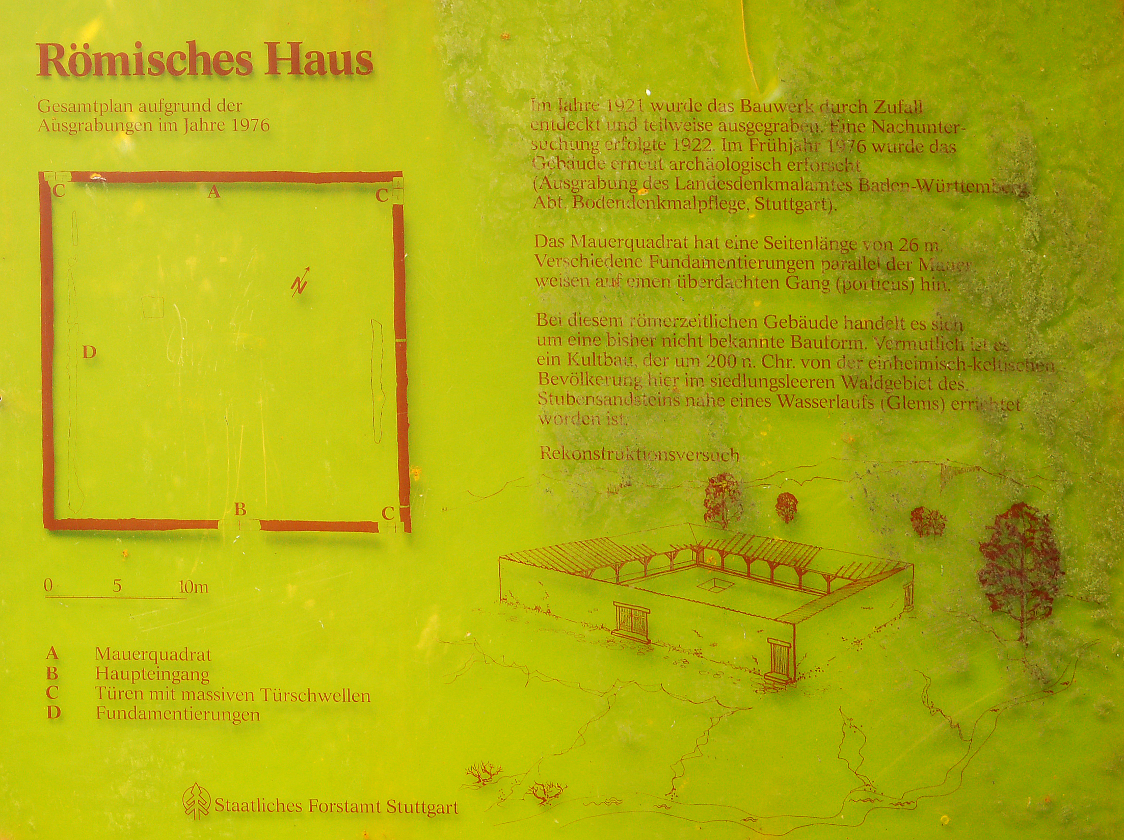 Description of the roman house in the Rotwildpark Stuttgart